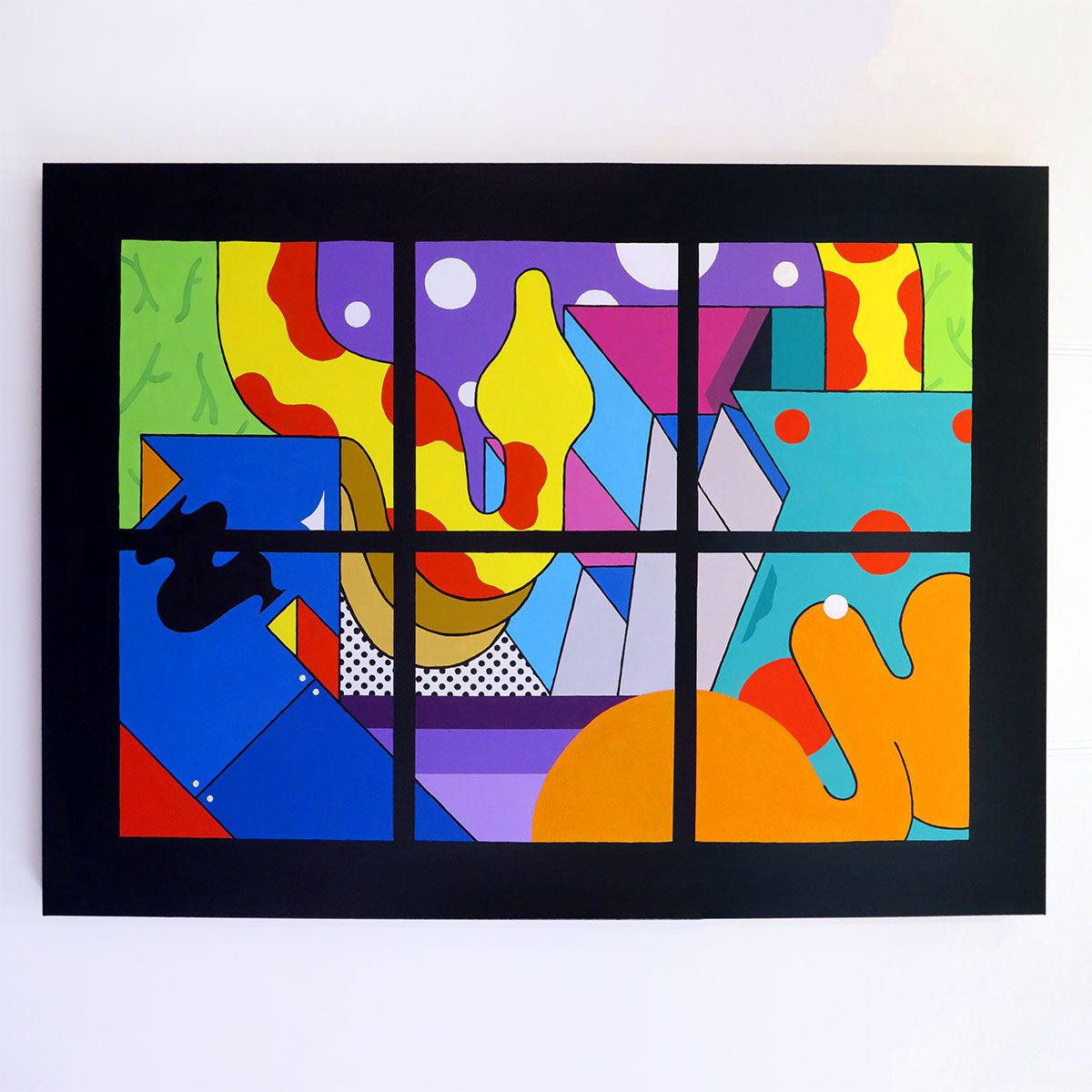 'Fourth Portal' Painting by Darren John, 2016.